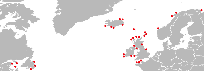 Northern Gannet (Morus bassanus) colonies in the Atlantic.